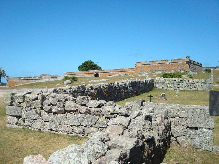 Fortaleza Santa Tereza, Rocha Department, Uruguay.